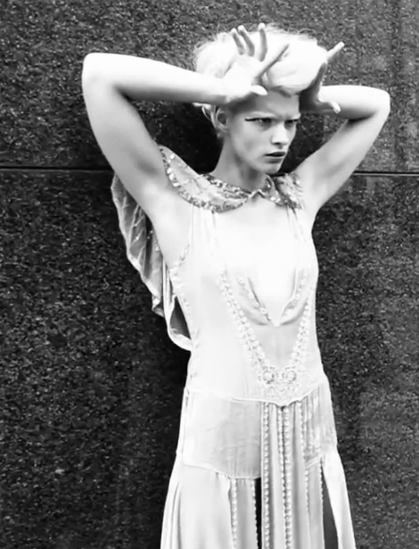 Extract from a video in which the model Crystal Renn poses for the photographer Paul Rowland.